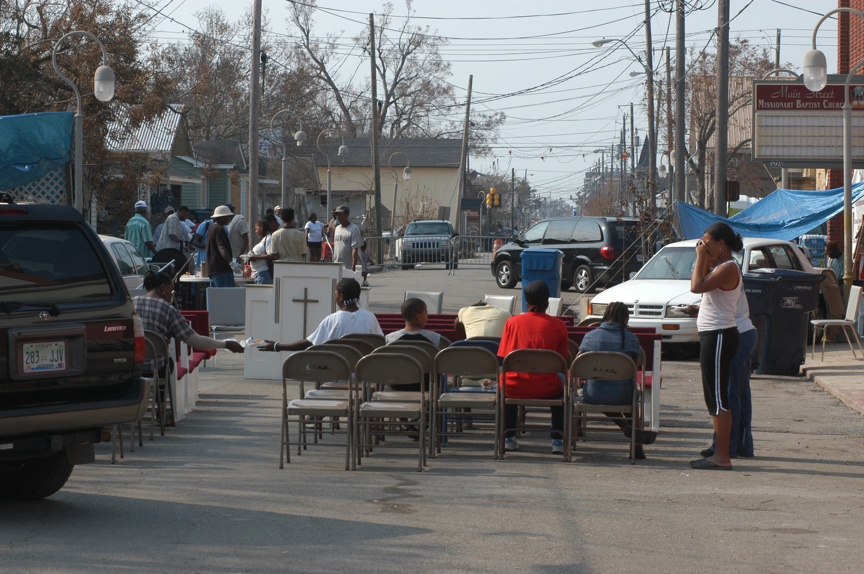 Biloxi, Miss., September 4, 2005 -- The Main Street Missionary Baptist Church prepares to hold service out on Main Street in Biloxi, Miss. Hurricane Katrina caused extensive damage to buildings all along the Mississippi gulf coast and caused the evacuation of New Orleans. FEMA/Mark Wolfe